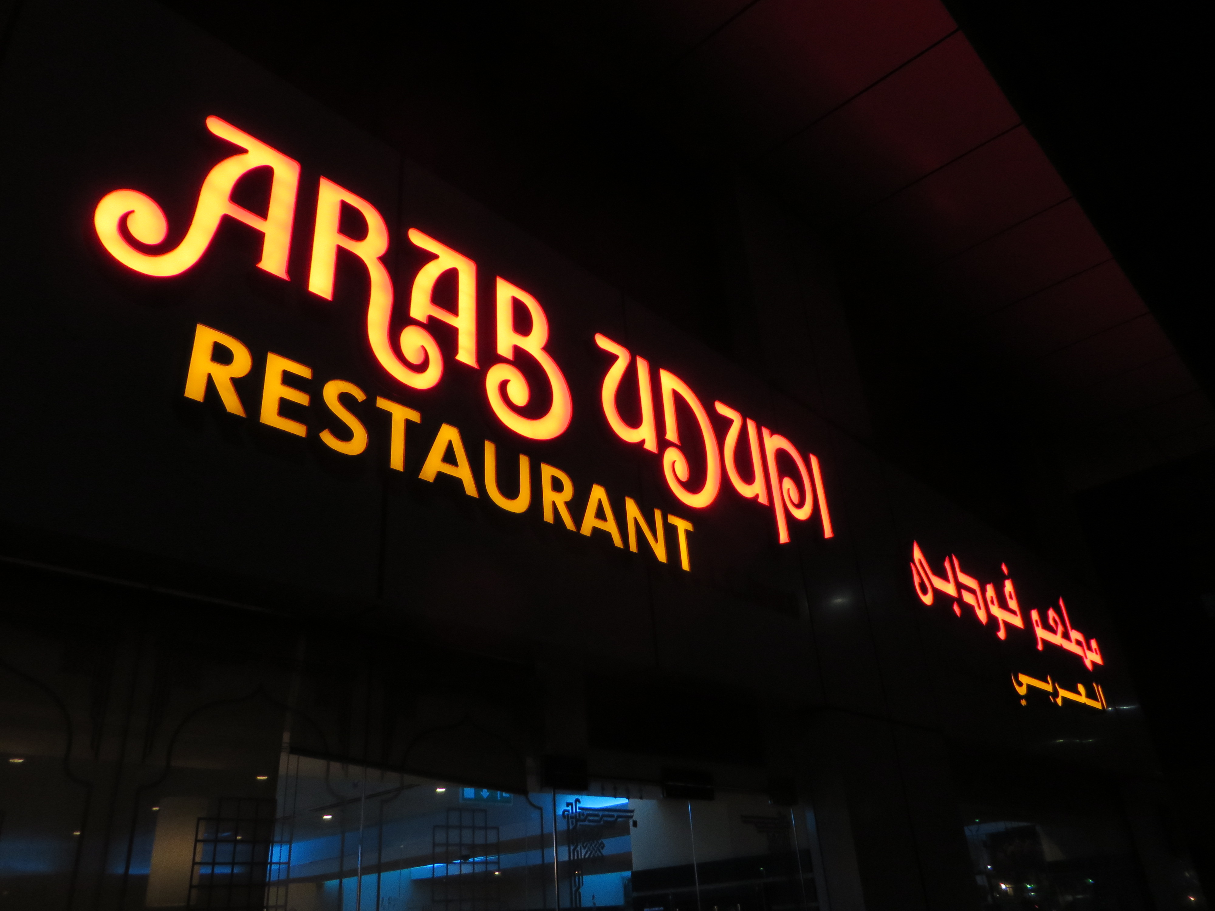 Arab Udupi restaurant sign at night in Abu Dhabi, United Arab Emirates.